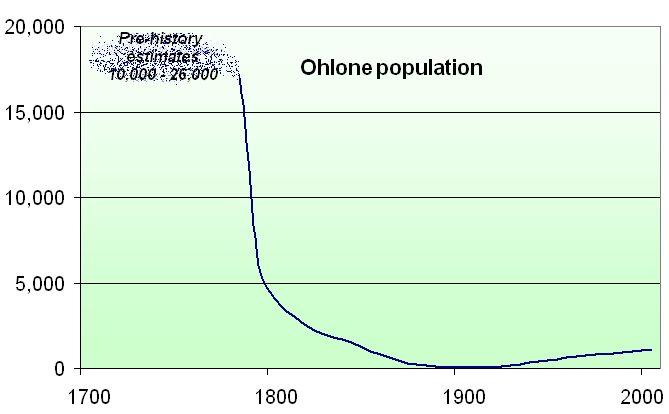 Graph of estimated Ohlone Population over time. When converting to SVG, obtain original data and don't do that spotty cloud thing, but a spread of lines representing min and max possibilities.